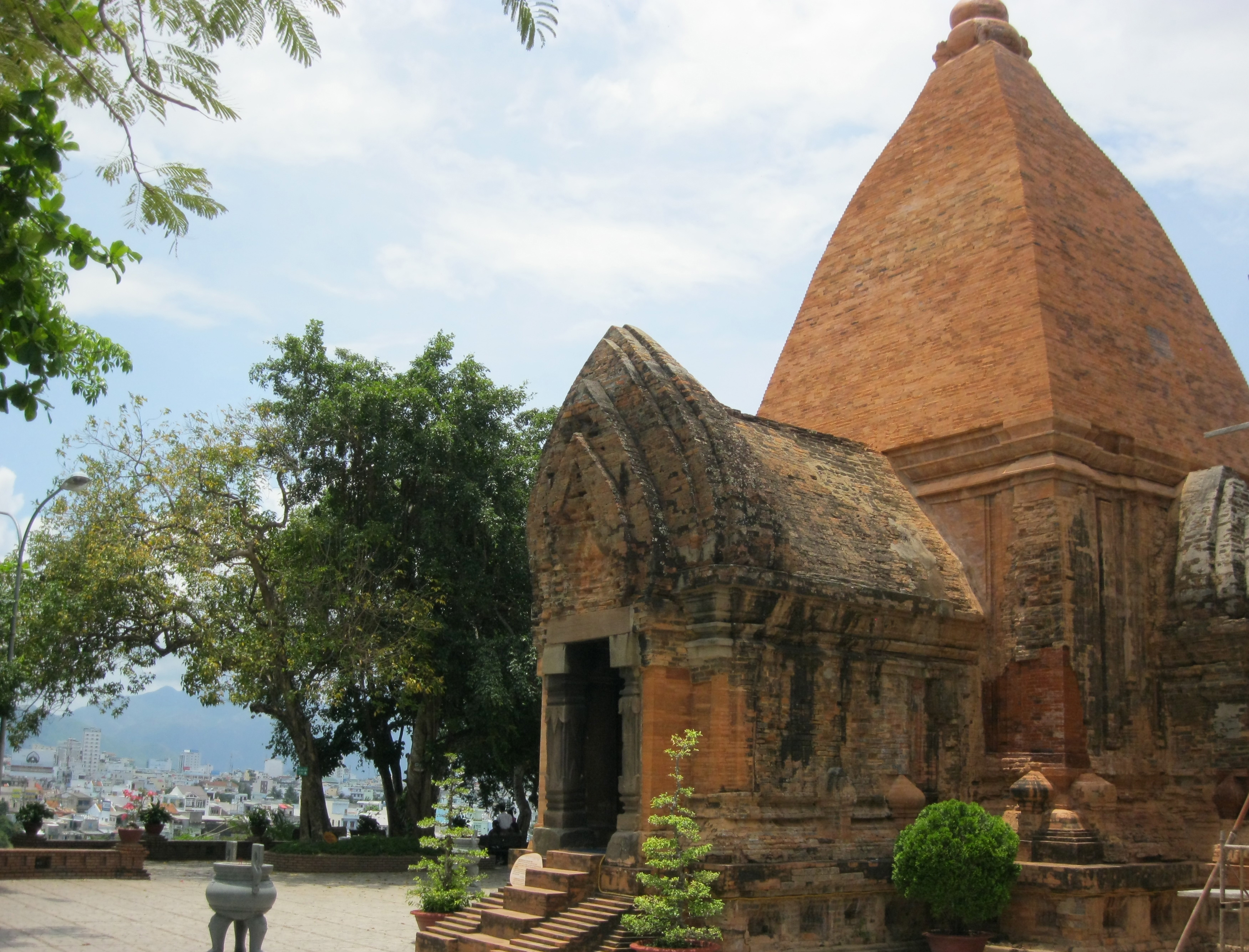 Siva Temple - one of four temples known as Po Nagar dedicated to Goddess Durga in the city of Nha Trang/ Vietnam